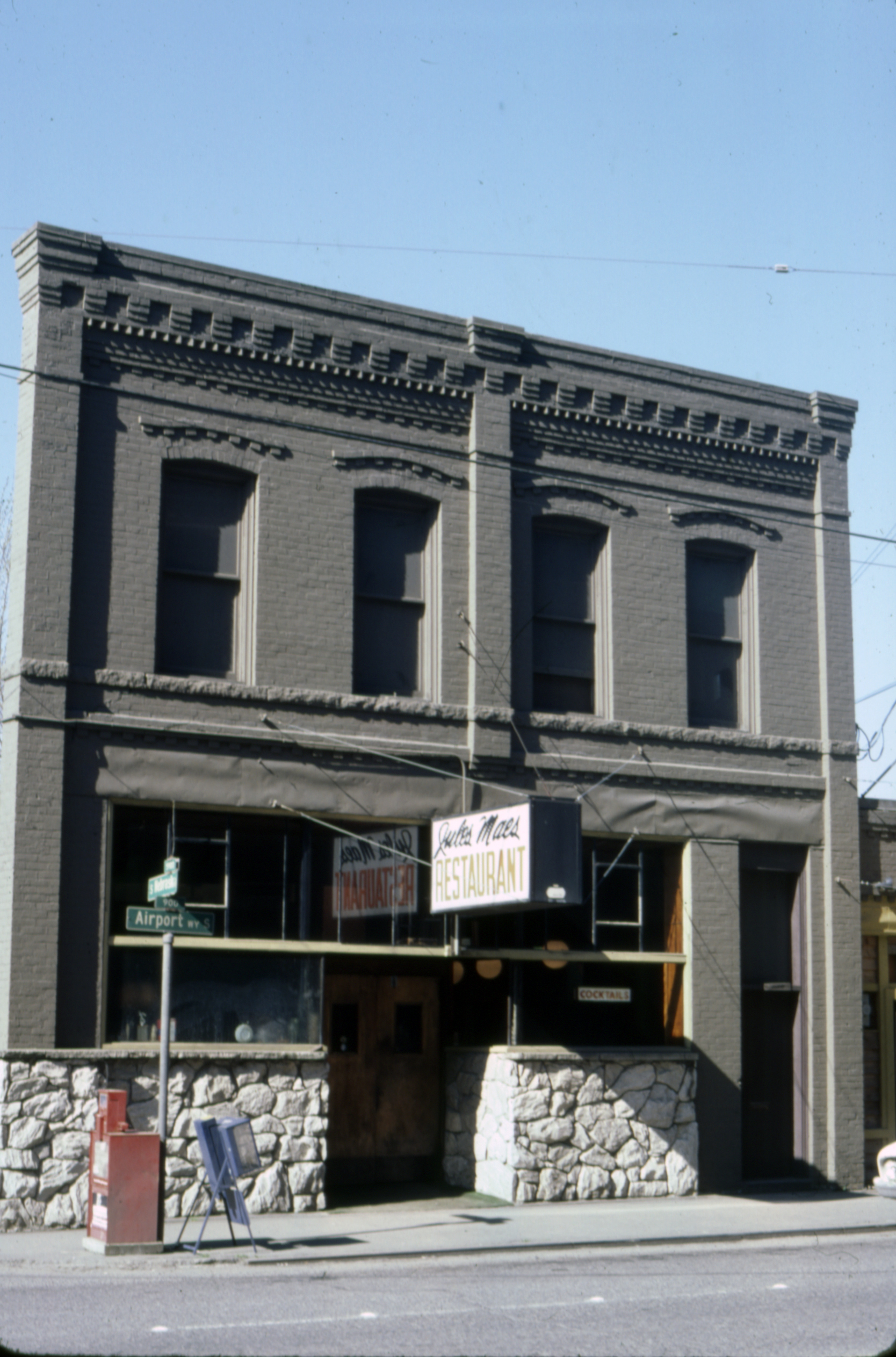 Jules Mae's Restaurant, 5919 Airport Way S., Georgetown, Seattle, Seattle, Washington, U.S., circa 1980.